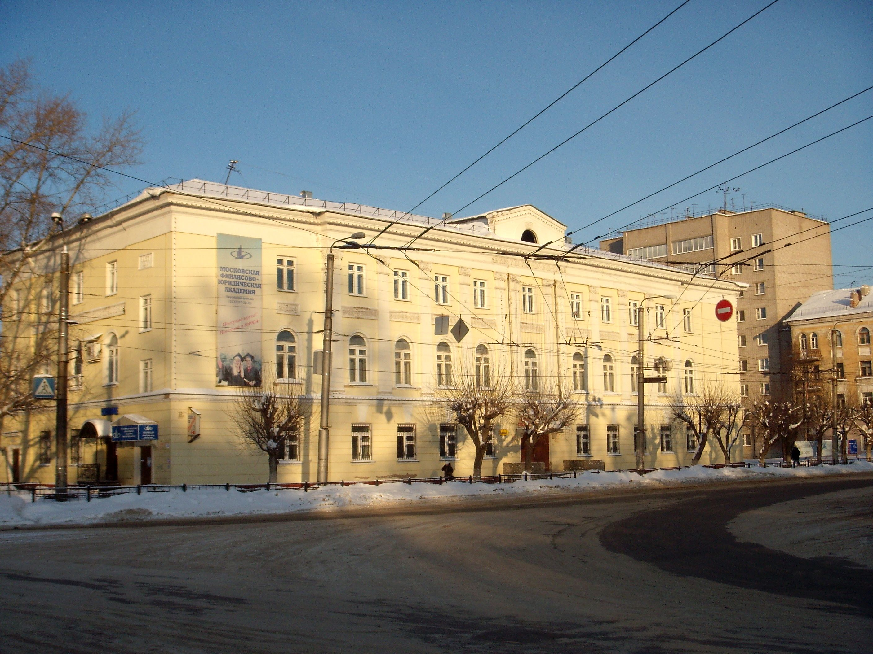 Dining house Avitec factory